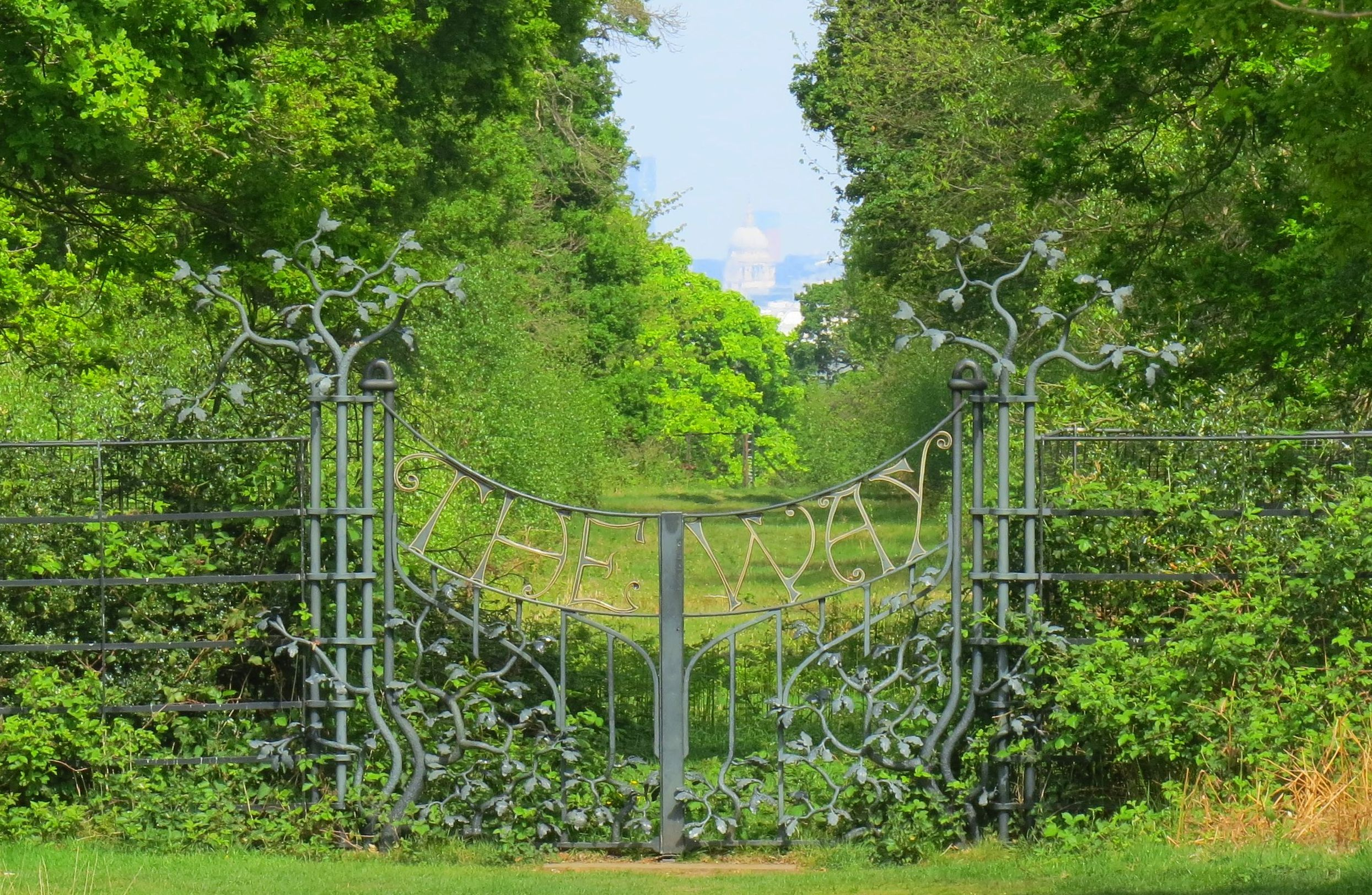 Protected view of St Paul's Cathedral from King Henry's Mound, Richmond Park. The cathedral is 10 miles distant from the view point.